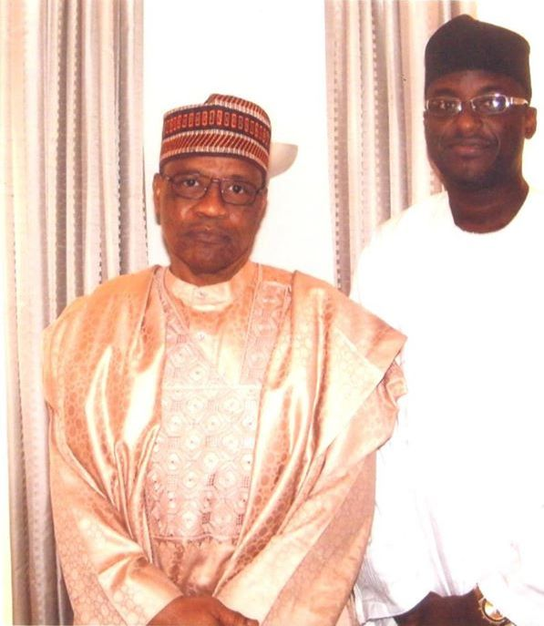 Hareter Babatunde oralusi, Nigerian Politician and Activist with Ibrahim Babangida, former Head of State to Nigeria.